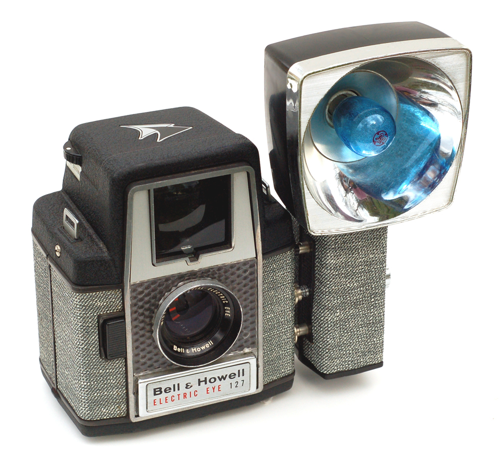 Bell & Howell was primarily known for their popular movie cameras, but they made several still cameras as well. The Electric Eye (c.1958) is a metal camera that was available in two color schemes: silver enamel with black leatherette, and black enamel with a grey, denim-like covering, as on this example with its matching flash unit. The case also has this covering.